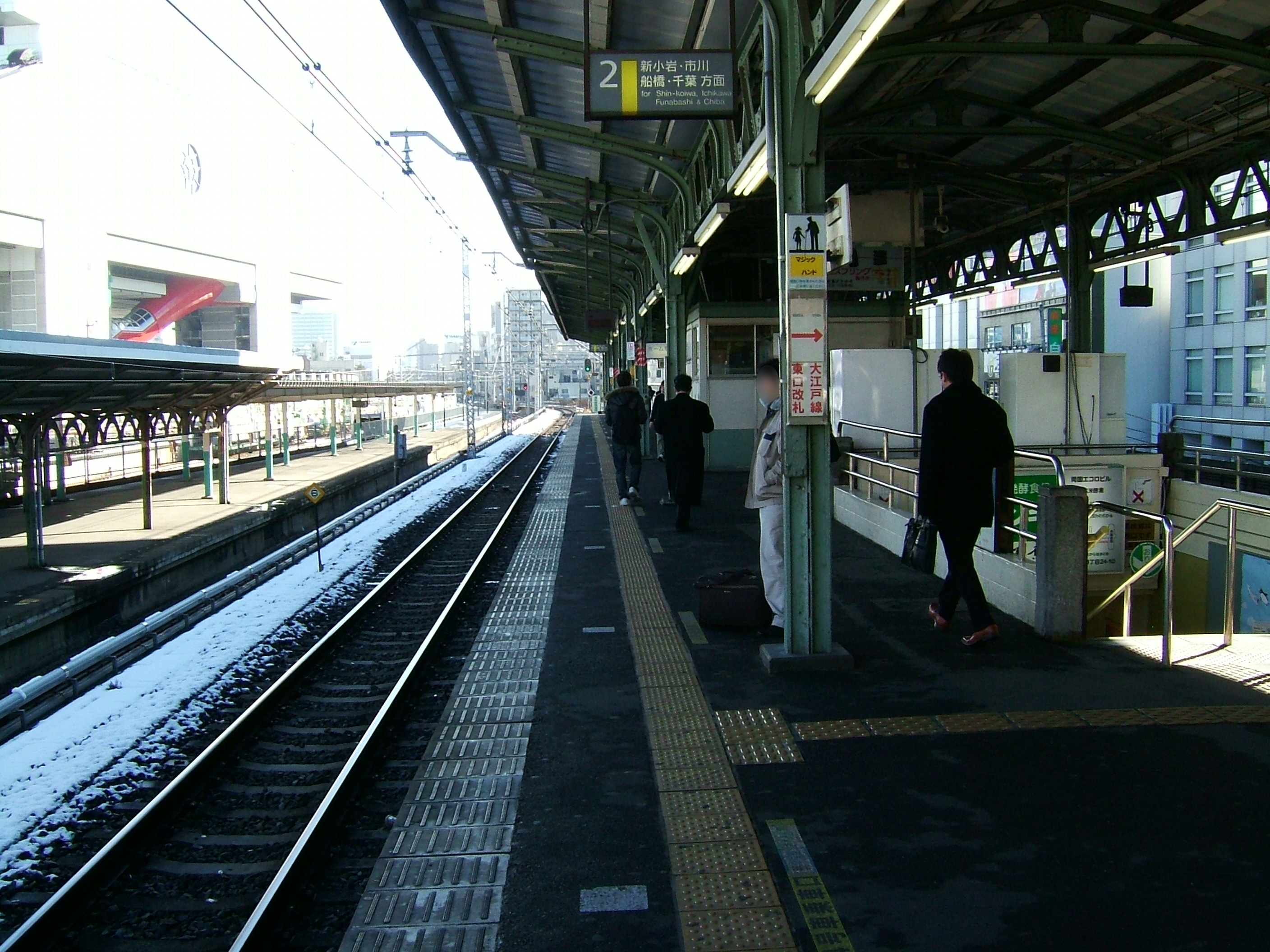 The platforms of Ryōgoku Station, Sōbu Main Line, Chūō-Sōbu Line